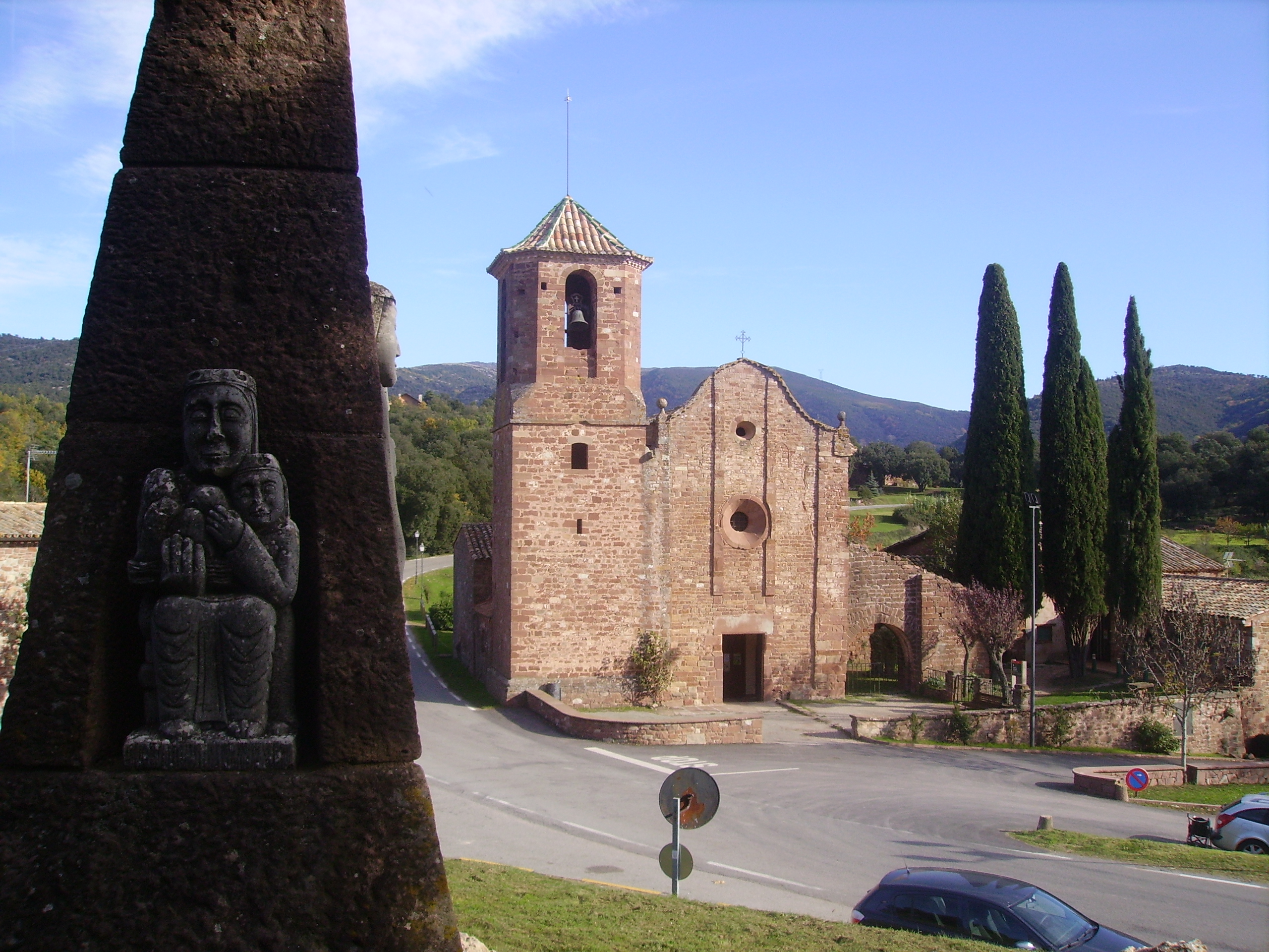 Sant Martí del Brull in Osona, Catalonia